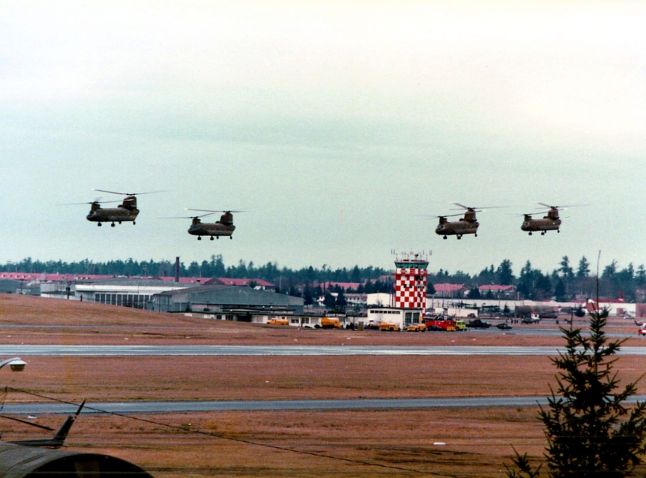 View of four Chinook helicopters over airfield at Ft. Lewis.